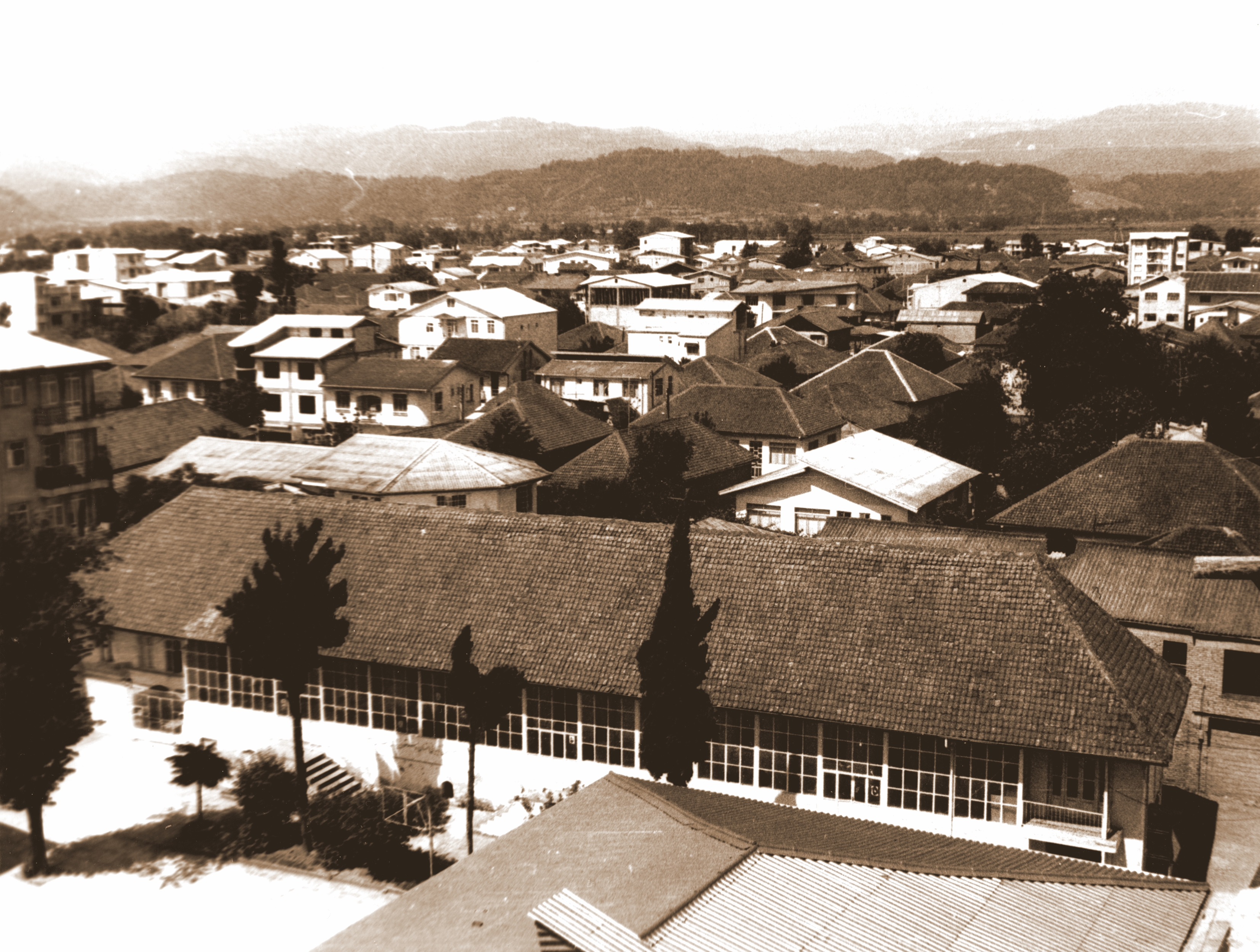 Old-Astara